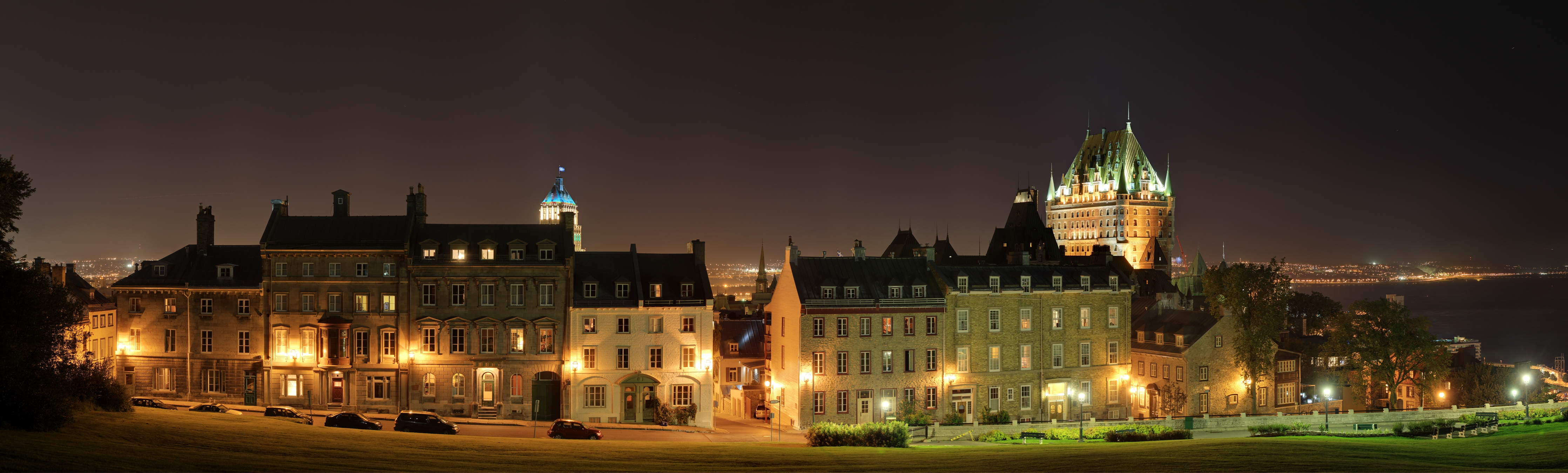 Panorama of the Old Quebec